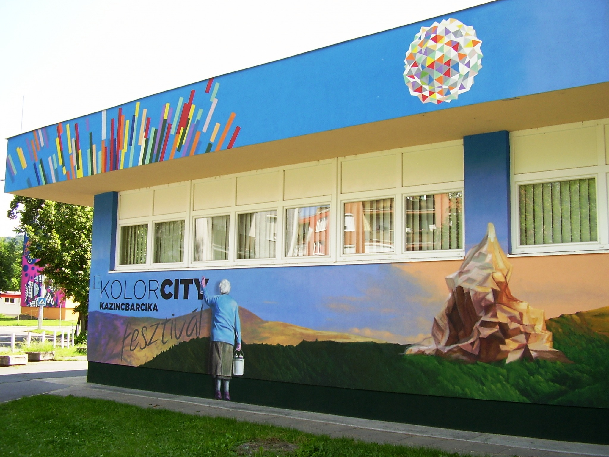 Kolorcity image and the old lady by Attila Grubánovits (designer); contributors: László Christmas and Valter Lengyel. 2014 mural It shows: ~An elderly lady paints the atmosphere/feeling of Kazincbarcika on the office building of Barcika Art Communication, Cultural and Sport Service Ltd. - #34 Polláck Mihály Street, Kazincbarcika, Borsod-Abaúj-Zemplén County, Hungary